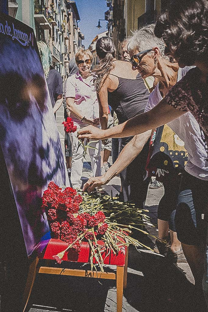 Youths paying homage to Maravillas Lamberto in Pamplona-Iruña, 2018